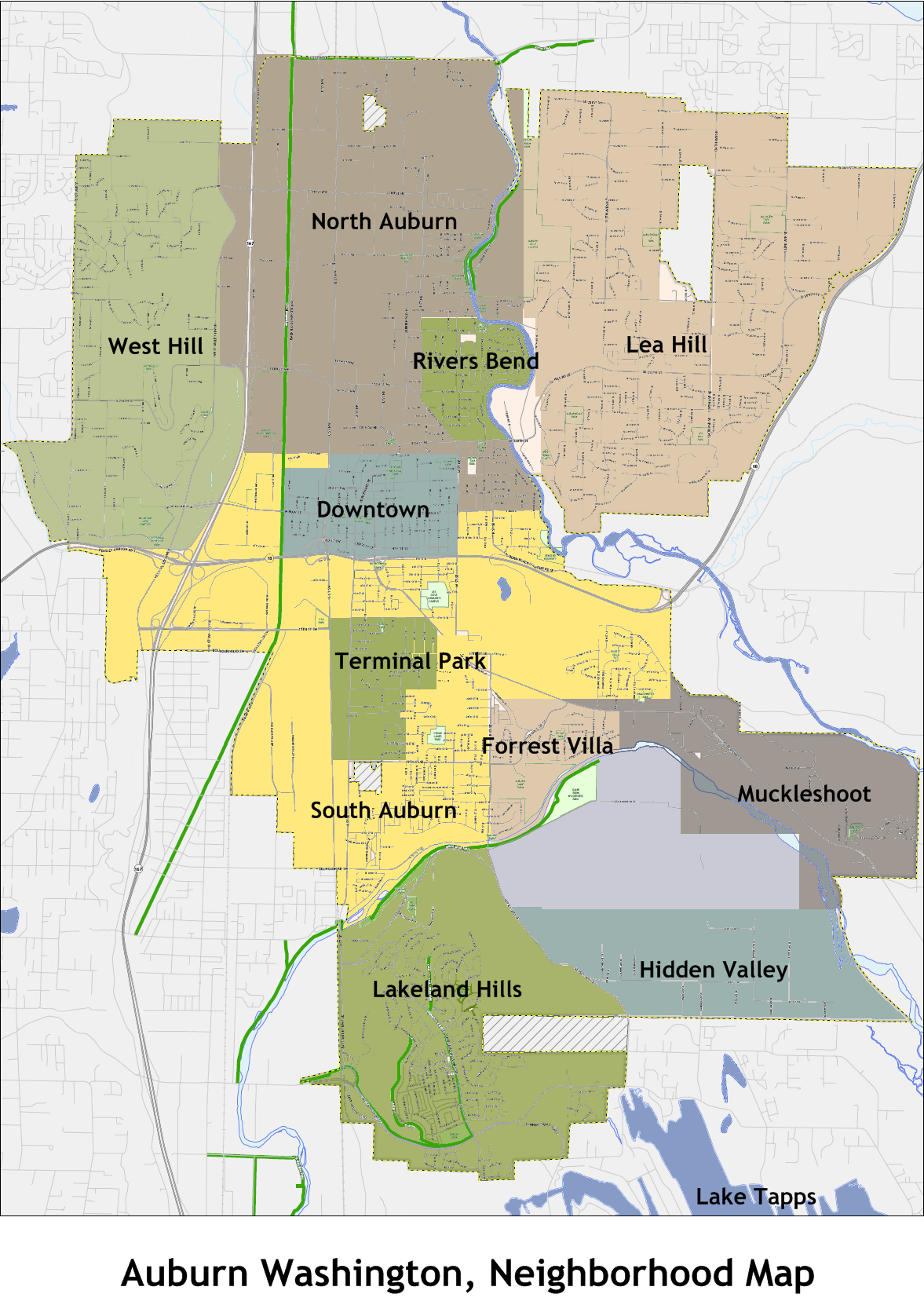 Neighborhood Map of Auburn WA